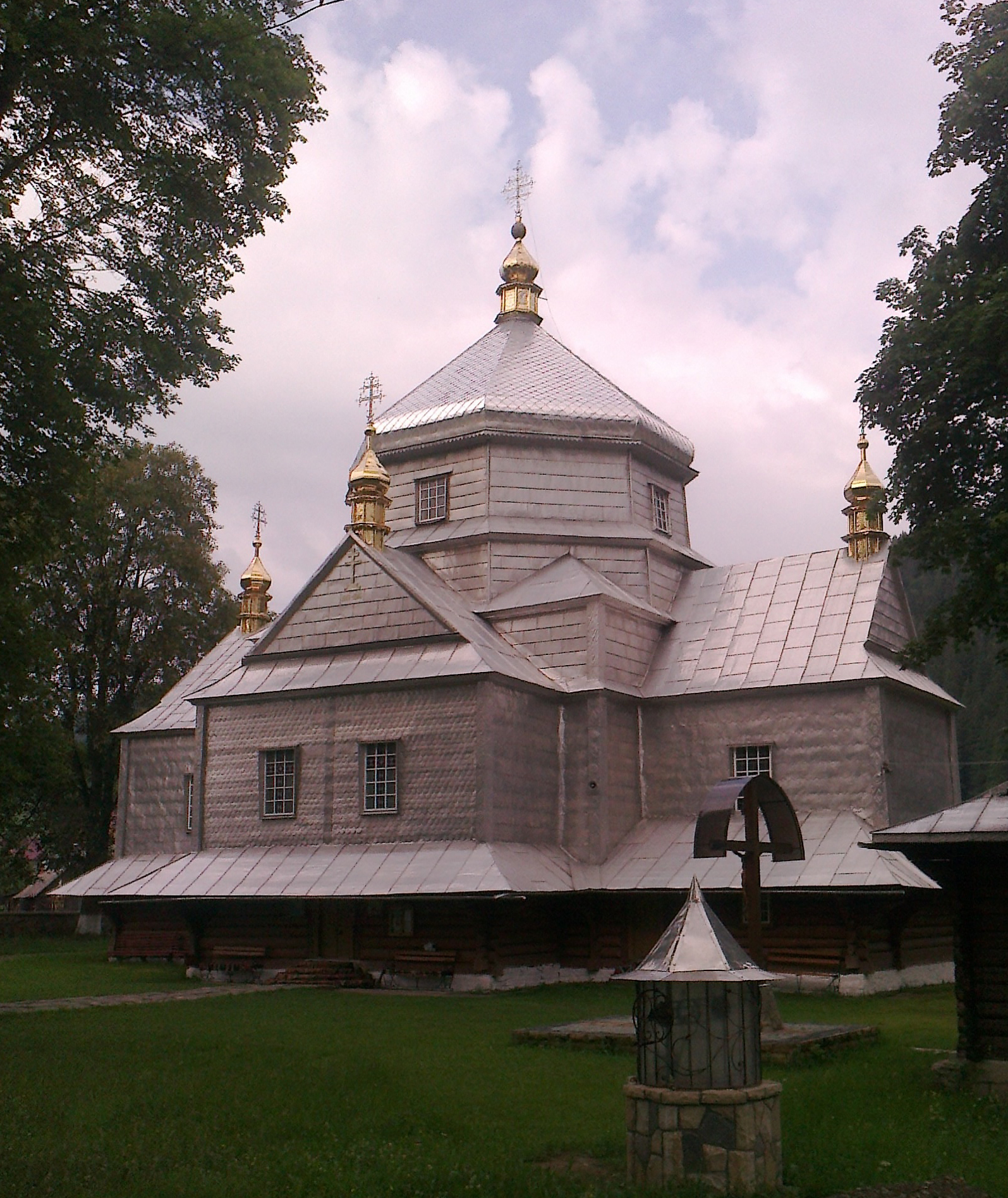 Church of the Holy Trinity, Mykulychyn (Ivano-Frainkivska Oblast, Ukraine)